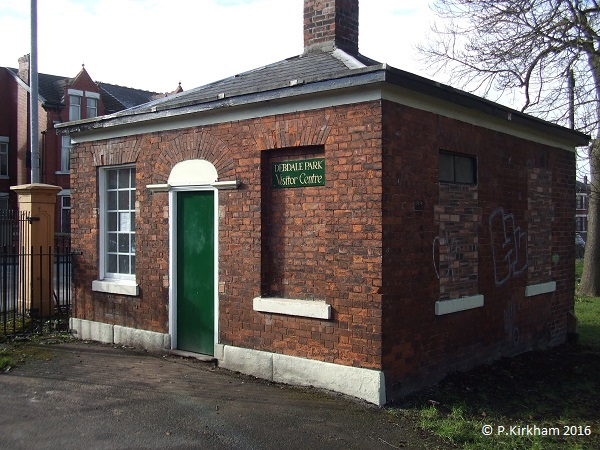 Gorton Hall Lodge